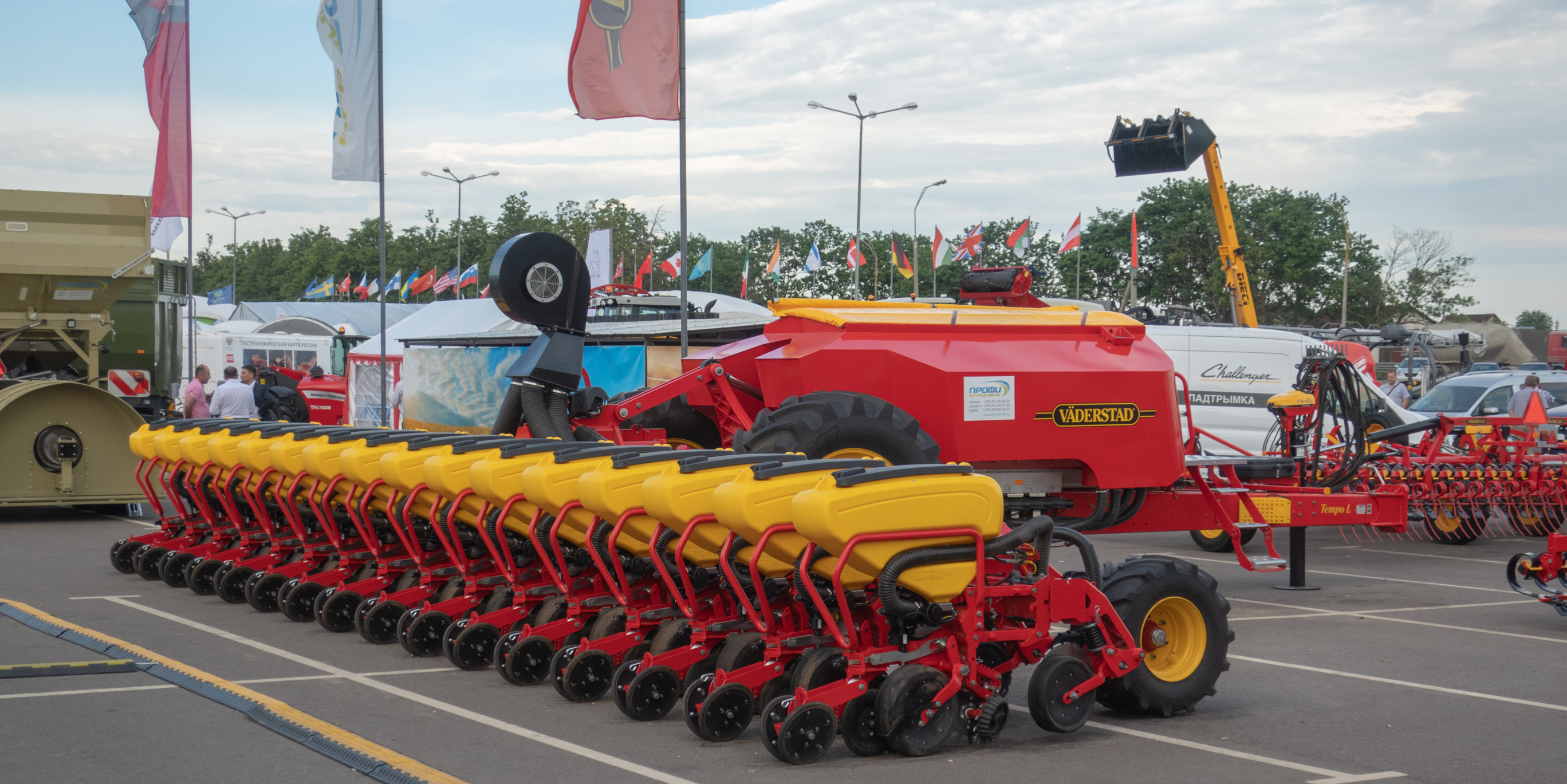 Väderstad Tempo L, production of Väderstad Verken AB. Photo taken at Belagro-2019 exhibition (Minsk district, Belarus)